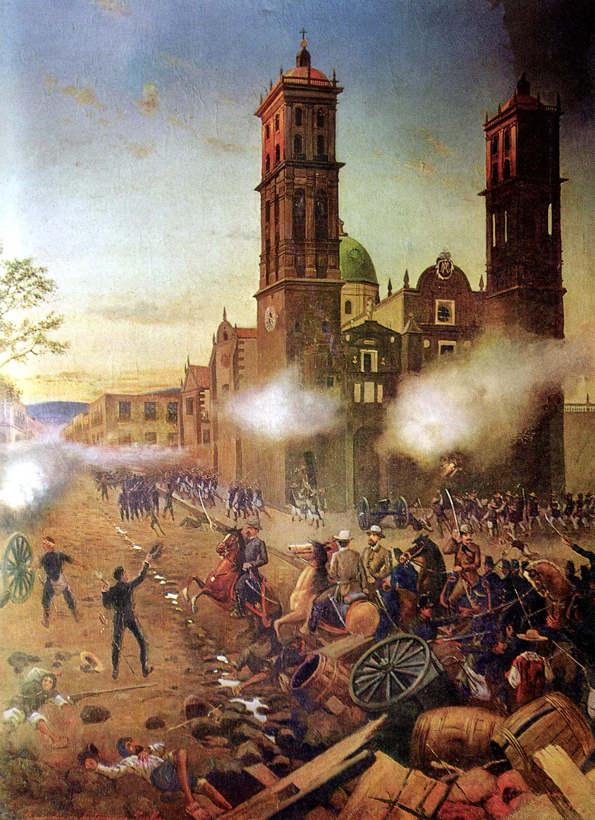 Battle of Puebla.